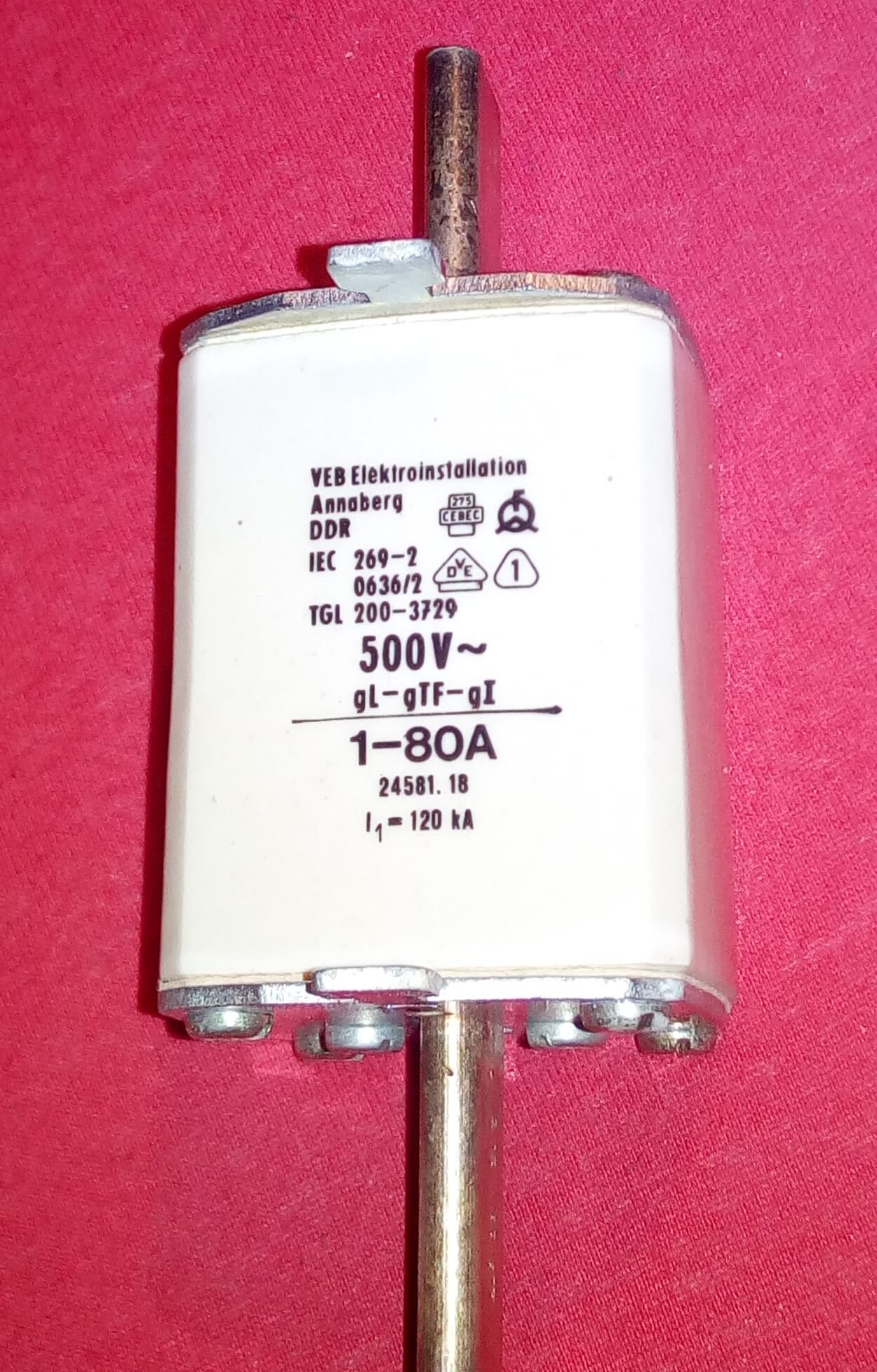 German NH fuse size NH1, 80 amps, 500V a.c., utilization category gL (gTF, gI), breaking capacity 120kA Manufacturer: VEB Elektroinstallation Annaberg (publicly owned company), GDR